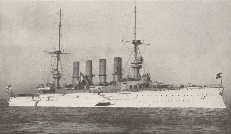 German armored cruiser Scharnhorst